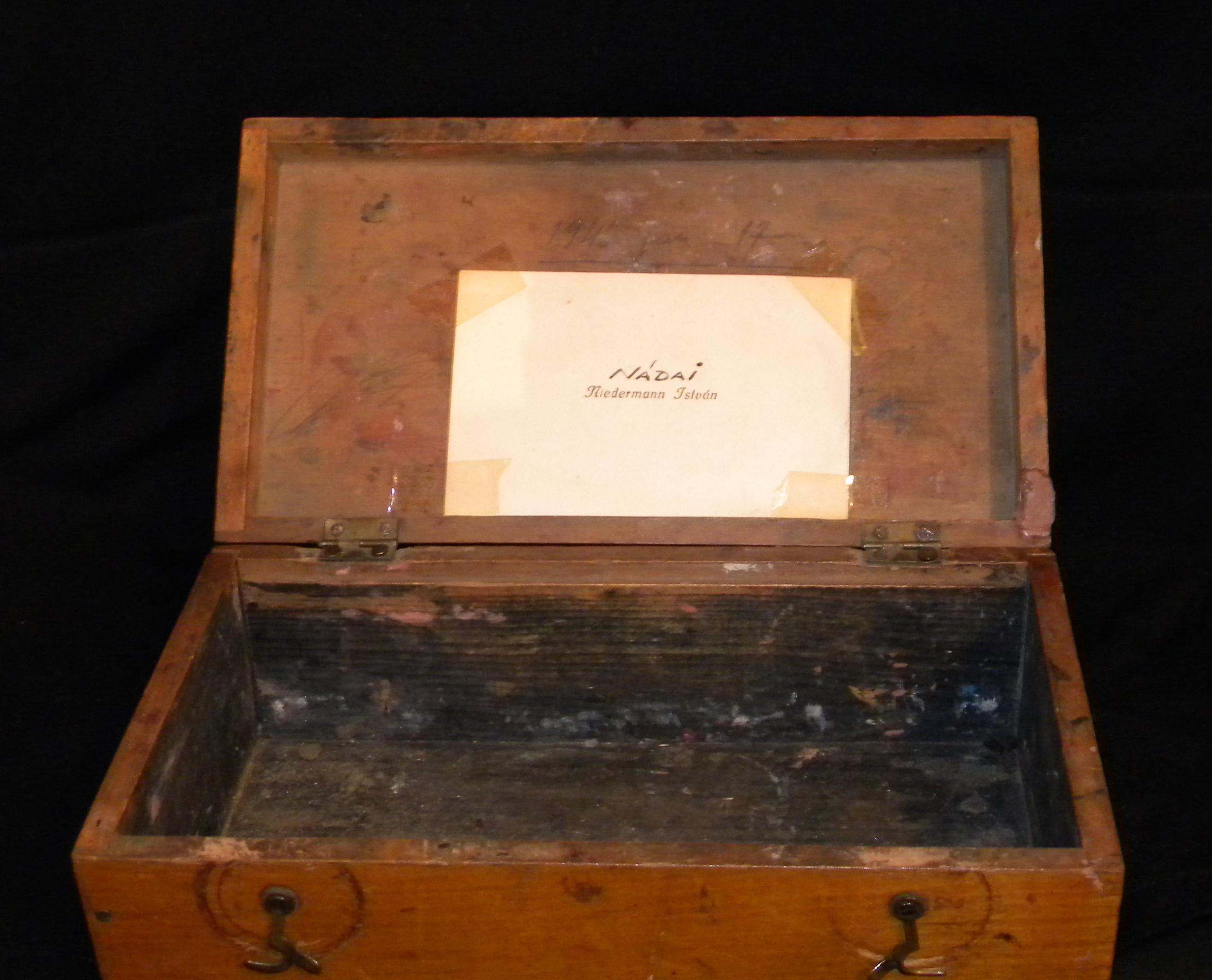 Make-up box belonging to Hungarian-Romanian actor István Nádai